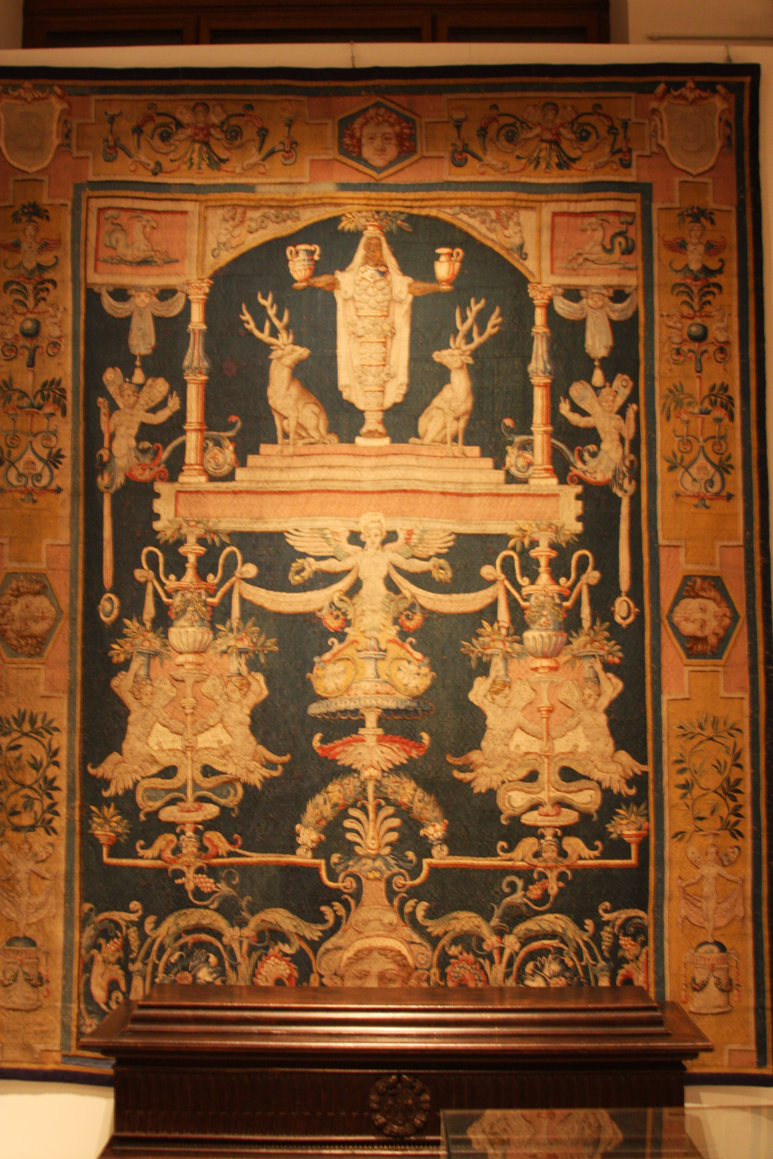 Tapestry "Diana of Ephesus" by Perino del Vaga (1545). Bussels, made in wool. Production for tradesman Andrea Doria, Genua, Italy. National Museum, Stockholm (Sweden).